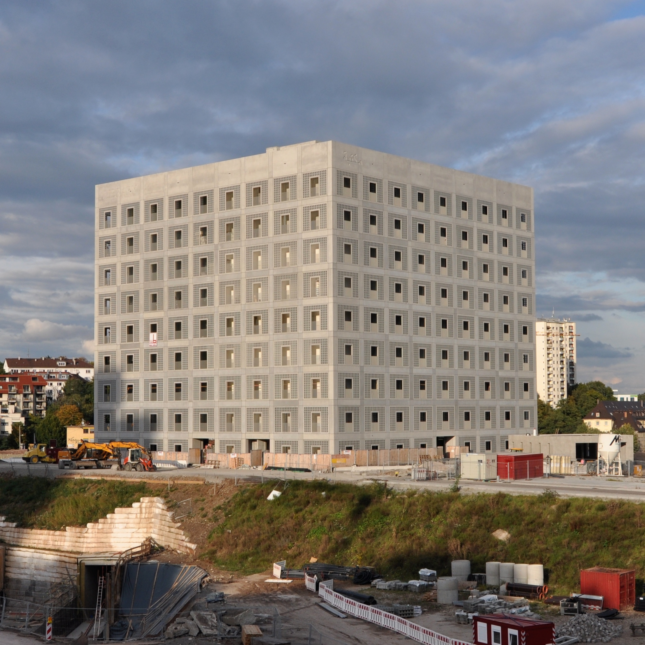 Bare shell of the new municipal library of Stuttgart, September 2010